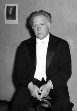 Edwin Fischer (1886–1960), Swiss pianist, in the wardrobe of the Mozarteum before his concerto.